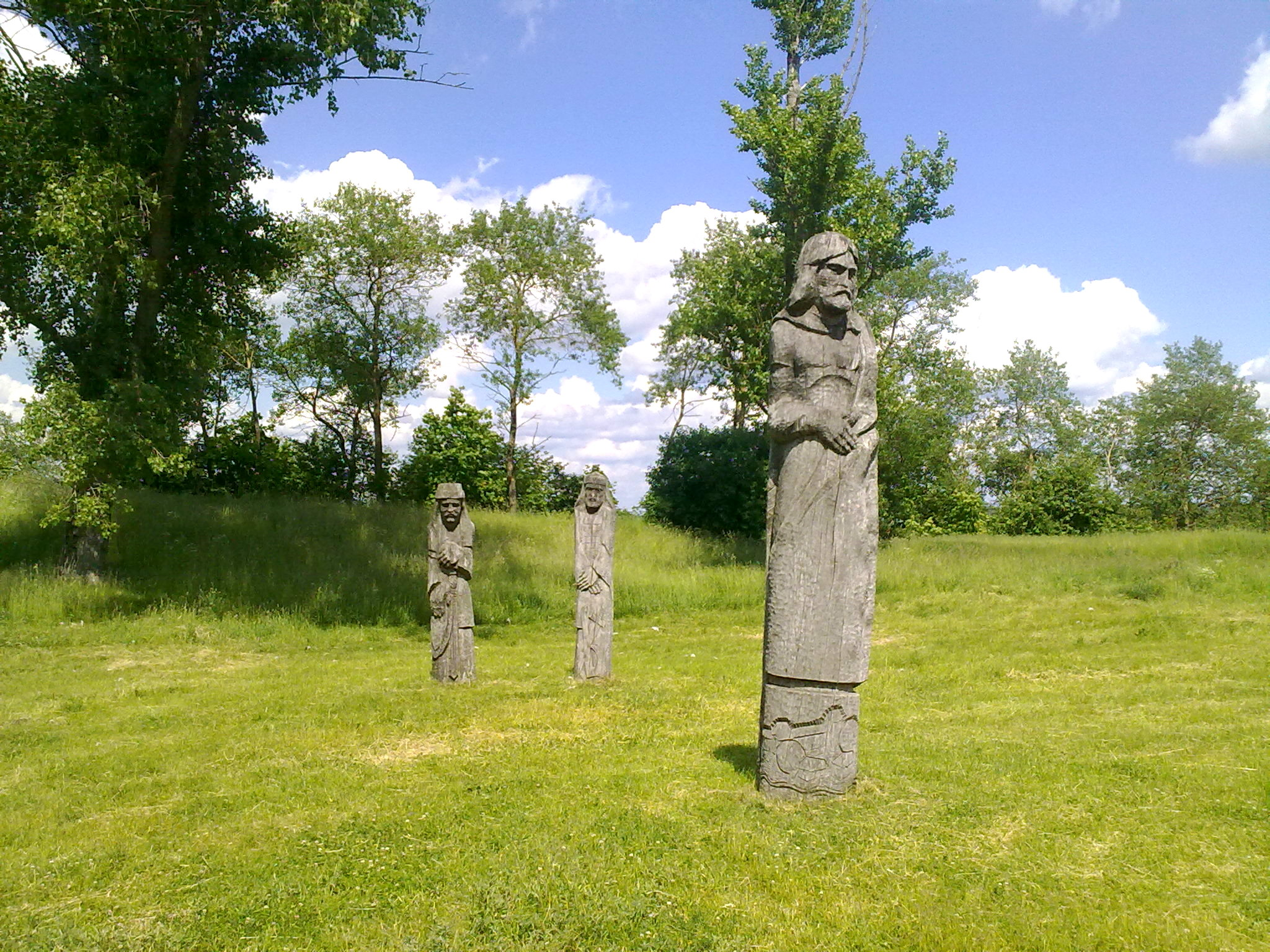 Беларуская (тарашкевіца): Гарадзішча. г. Браслаў This is a photo of Belarusian heritage monument. Reference number: 213В000174 ( WLM)